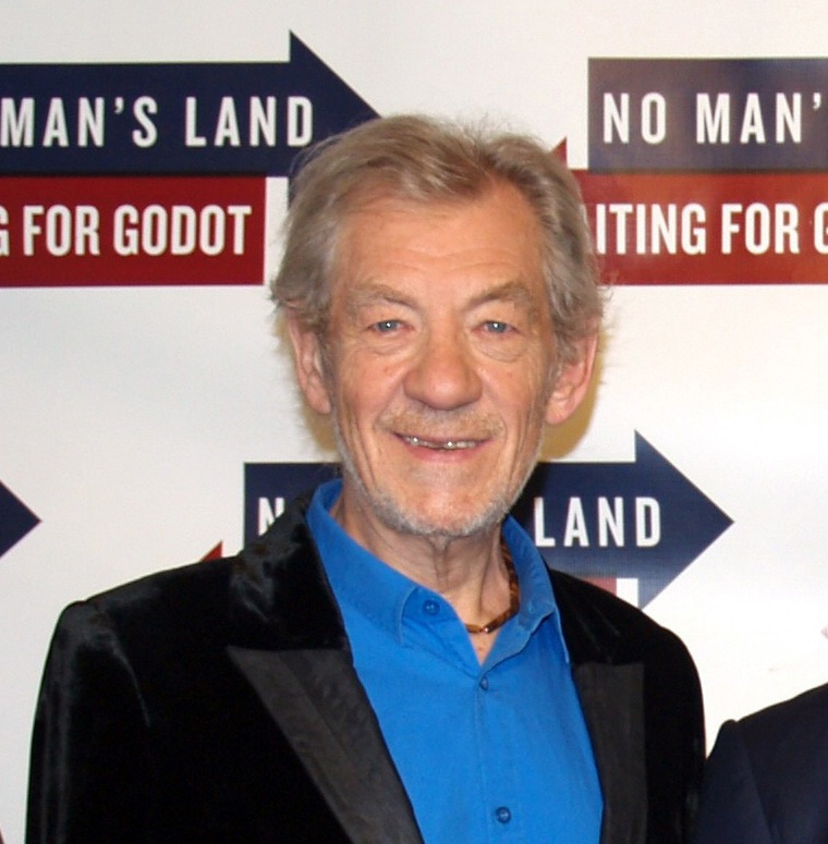 Actor Ian McKellen at a September 24, 2013 press junket at Sardi's restaurant in Manhattan's theater district for the Broadway shows Waiting for Godot and No Man's Land. This photo was created by Luigi Novi. It is not in the public domain, and use of this file outside of the licensing terms is a copyright violation.